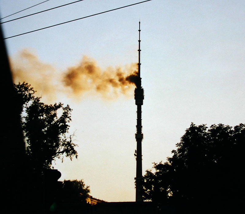 Fire on Ostankino TV tower, Moscow